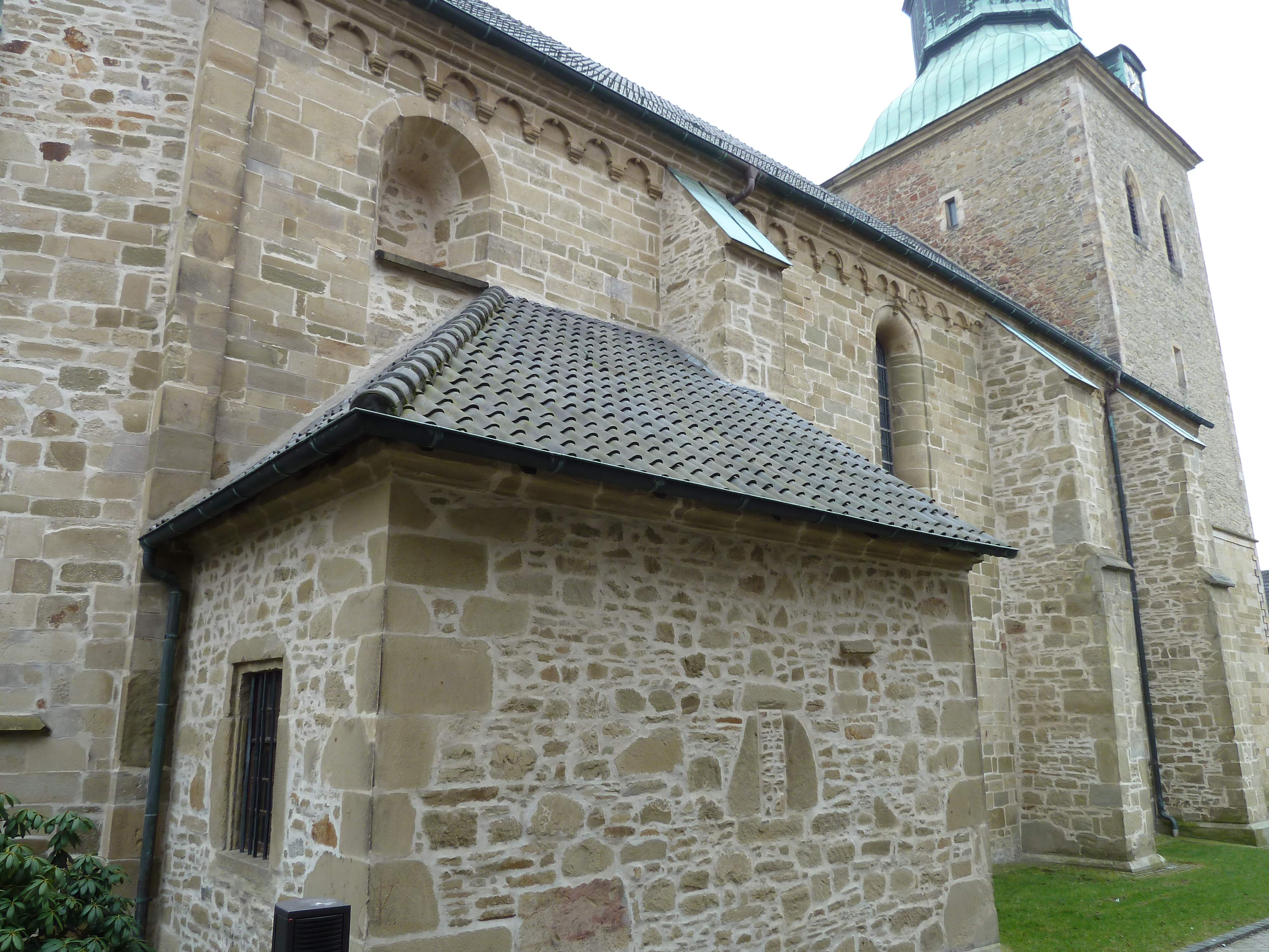 own file